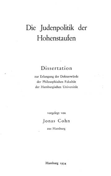 צילום דף השער של עבודת הדוקטורט